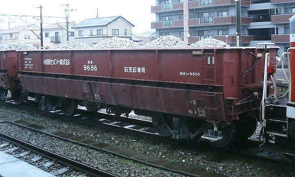 JR Freight FC (Hopper car) Type Hoki 9500 No. hoki 9686. Place: At Asa Station in Sanyoonoda City, Yamaguchi, Japan.